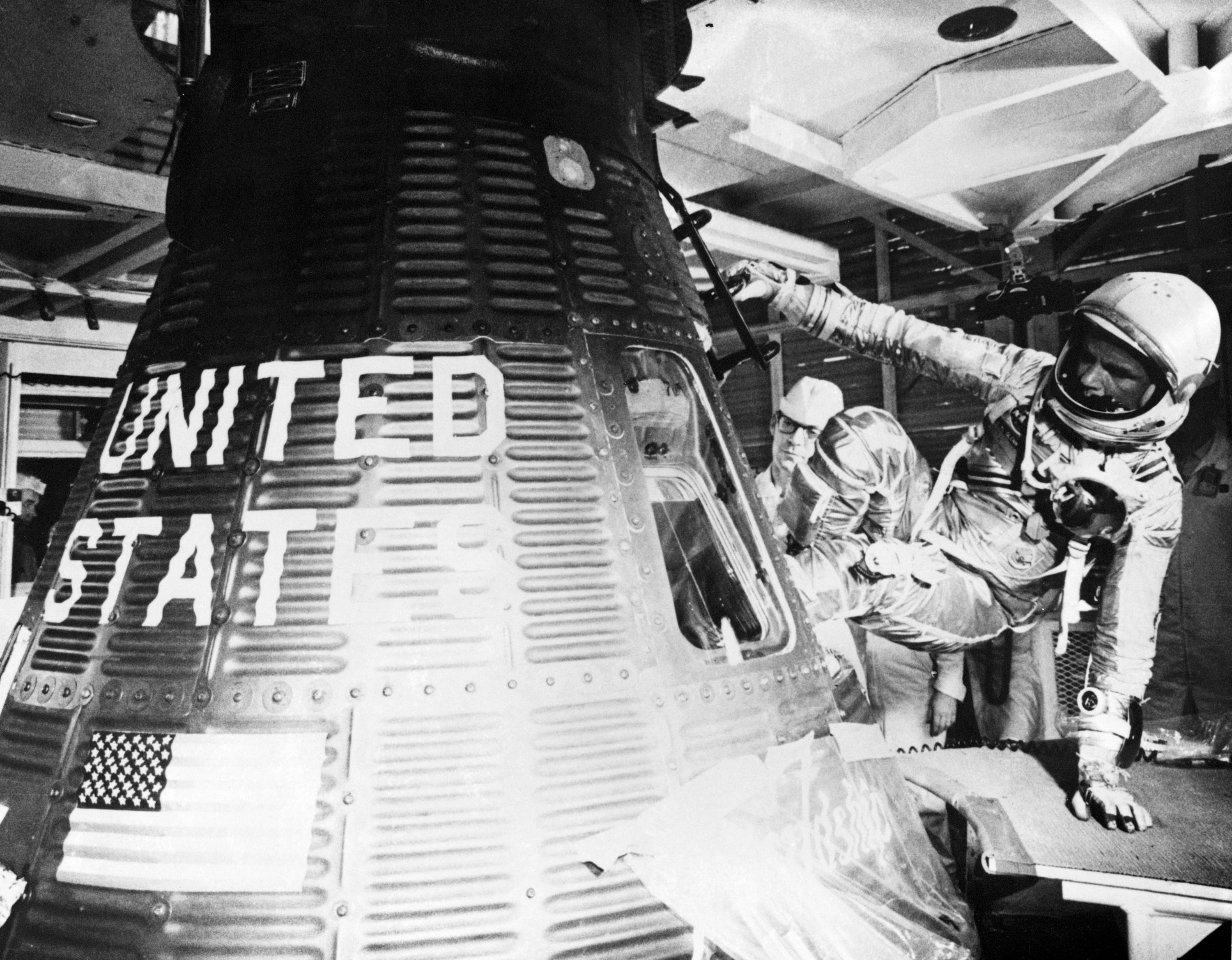 (February 20, 1962) Astronaut John Glenn, first American to orbit the Earth, enters the Mercury "Friendship 7" Spacecraft during prelaunch preparations. Image # : S62-00371